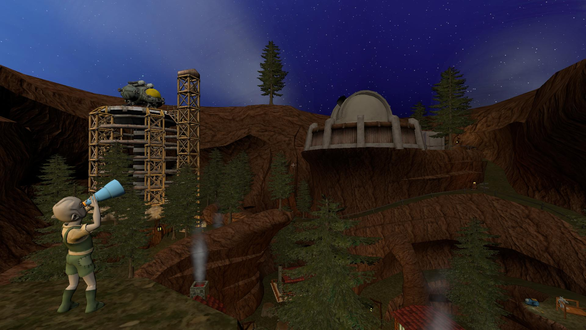 Screenshot from Outer Wilds